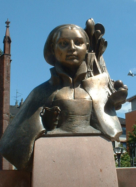 view of Ludwigshafen, Germany